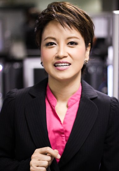 Nattha Thennews Free images of Thailand upload by Pairat visetsing